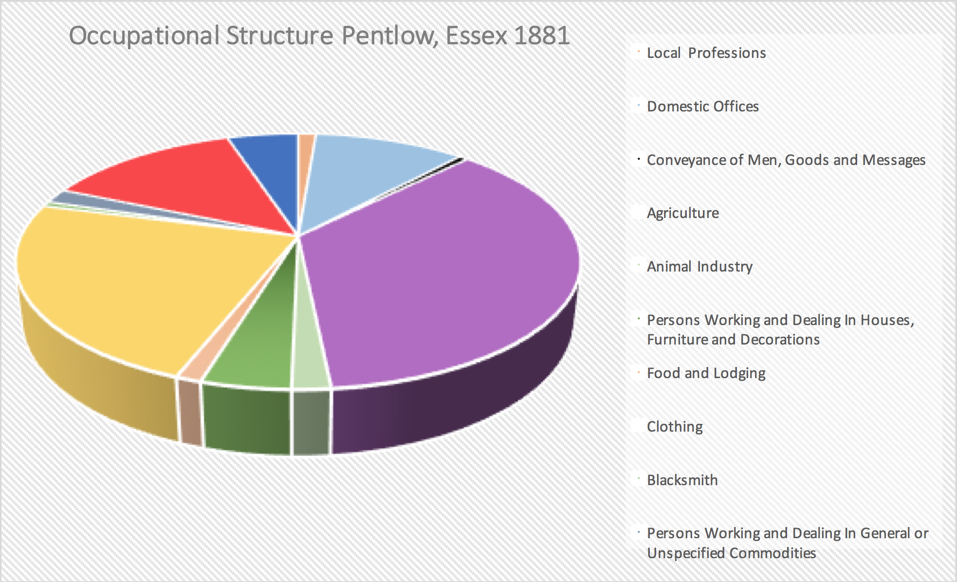 Pie chart showing the Occupational structure of Pentlow in 1881